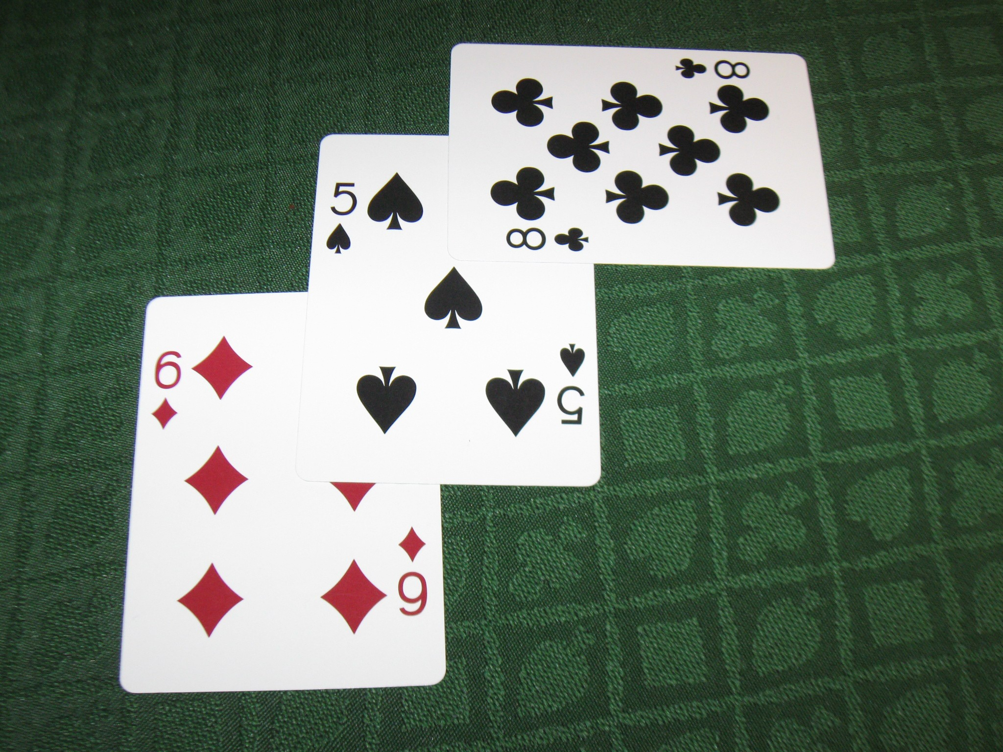 A double down hand in Blackjack. Given a six and five, the player has a score of eleven, doubles down, receiving an eight, obtaining a score of nineteen. The third card is placed at right angles to the other two to signify that the player doubled down and cannot receive any more cards. The cards used in this picture are Gemaco Alpha blackjack playing cards. No copyrightable elements of these cards appear in this photo.